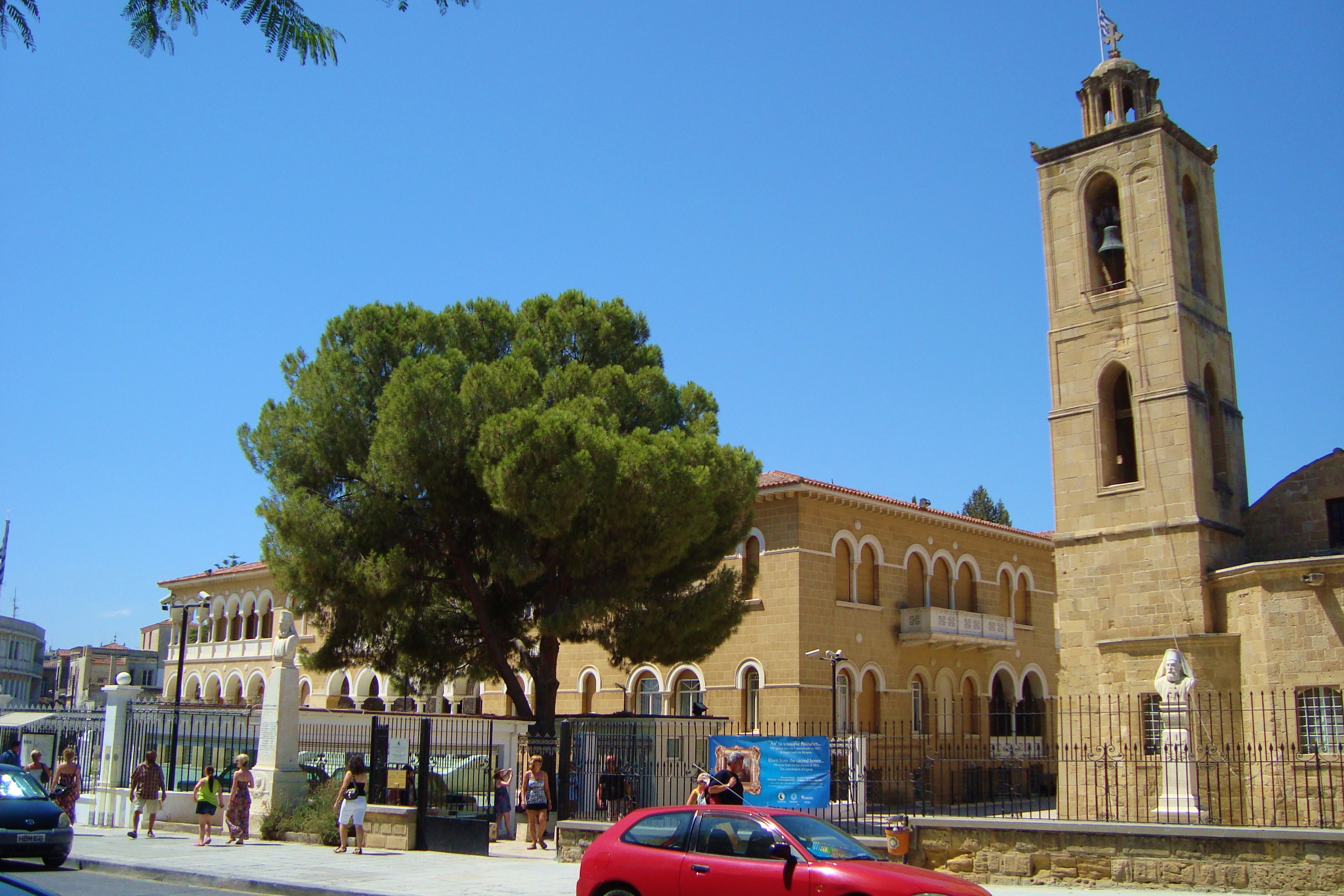 Archbishop House and Saint John church in Nicosia Republic of Cyprus